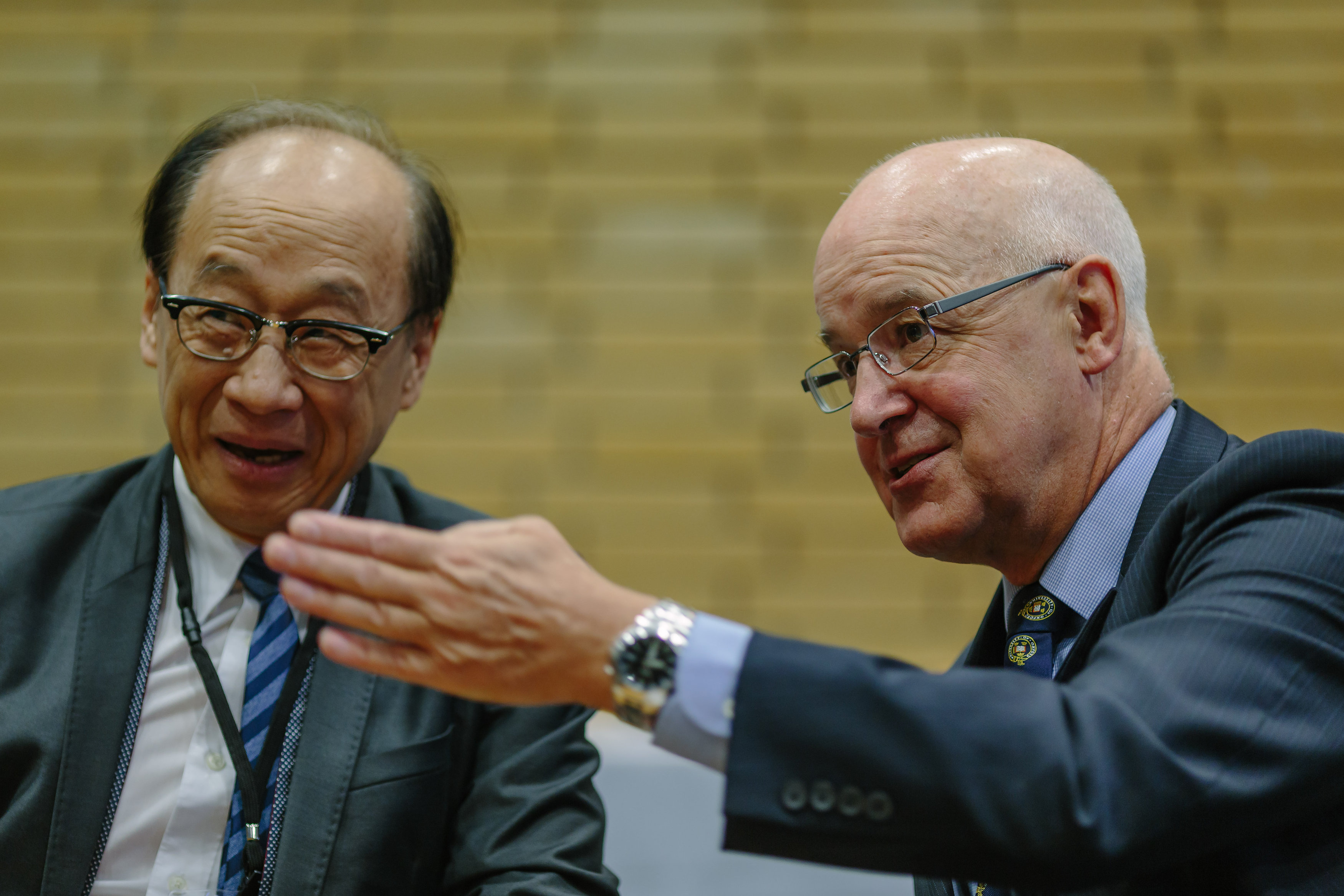 Dr Wilfred Chung, Philomathia Foundation; Professor Andrew Hamilton, Vice-Chancellor, Oxford University. Photo credit: REACH If you use one of our photos, please credit it accordingly and let us know. You can reach us via Flickr or at